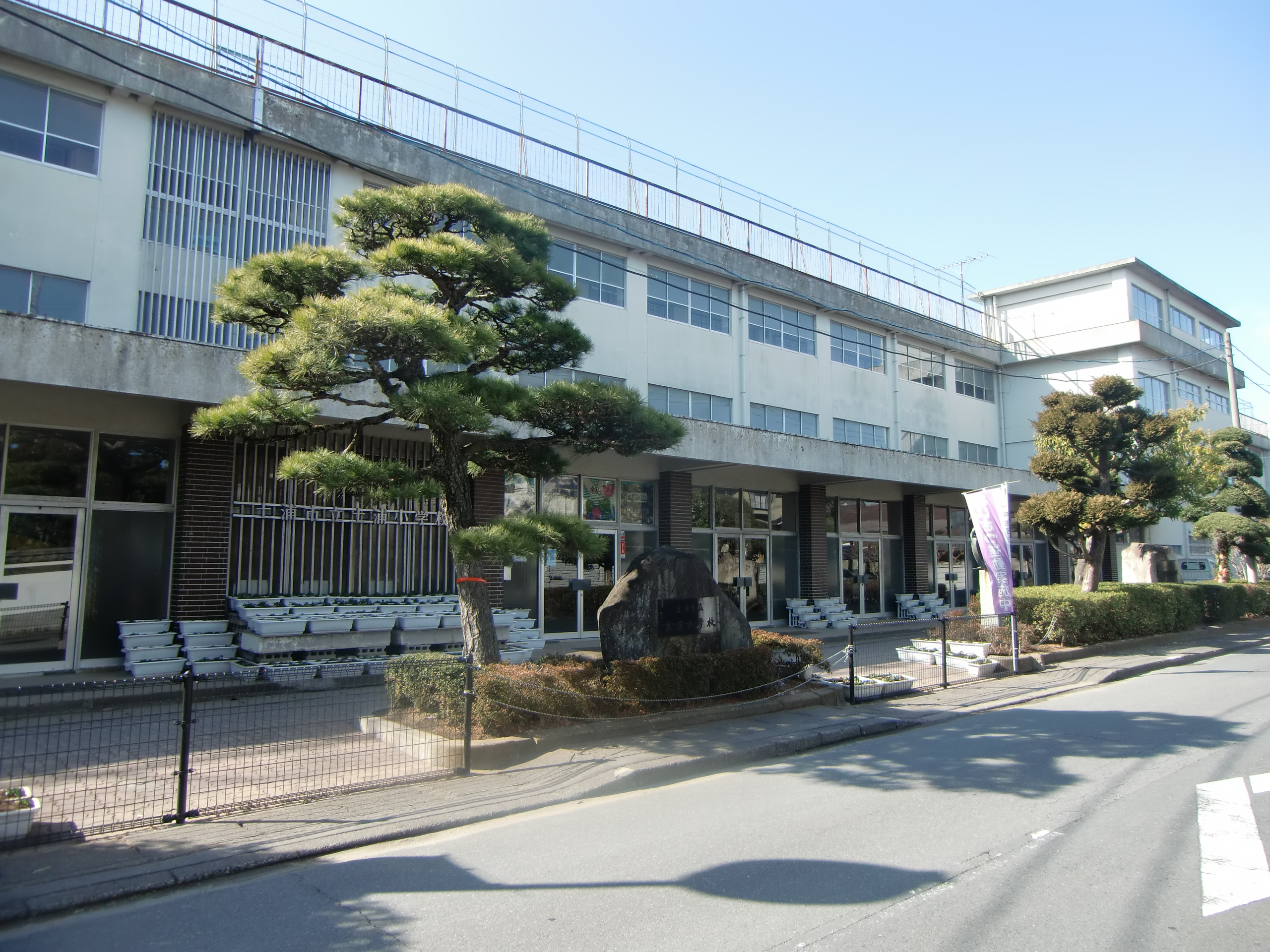 Tsuchiura City Tsuchiura Elementary school, Tsuchiura, Ibaraki, Japan.